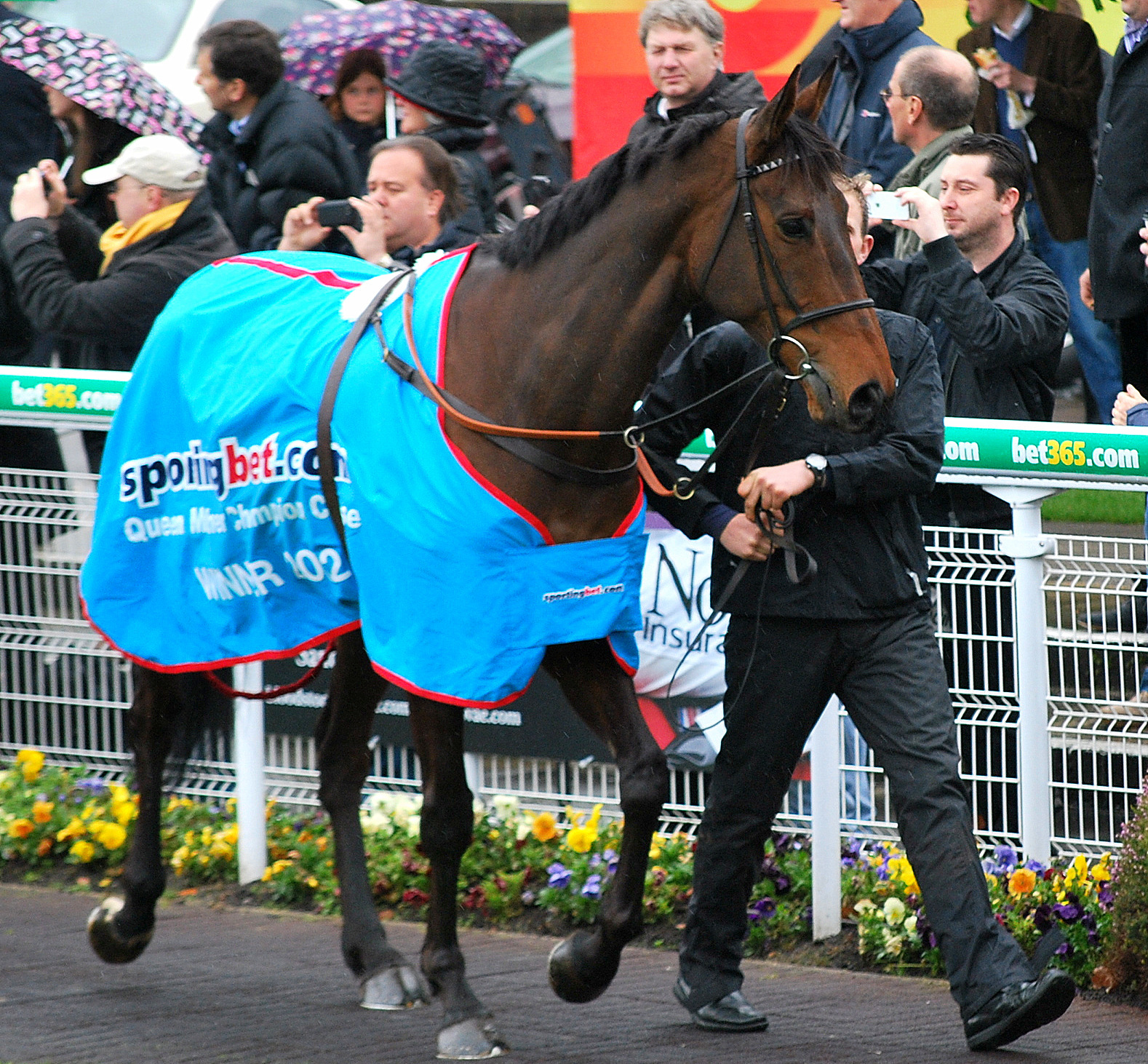 Champion Chase winner Finian's Rainbow in the Champions Parade at Sandown on bet365 Gold Cup Day, April 28th 2012.